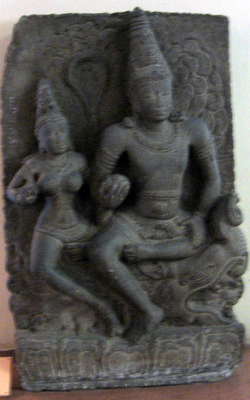 Varuna with consort